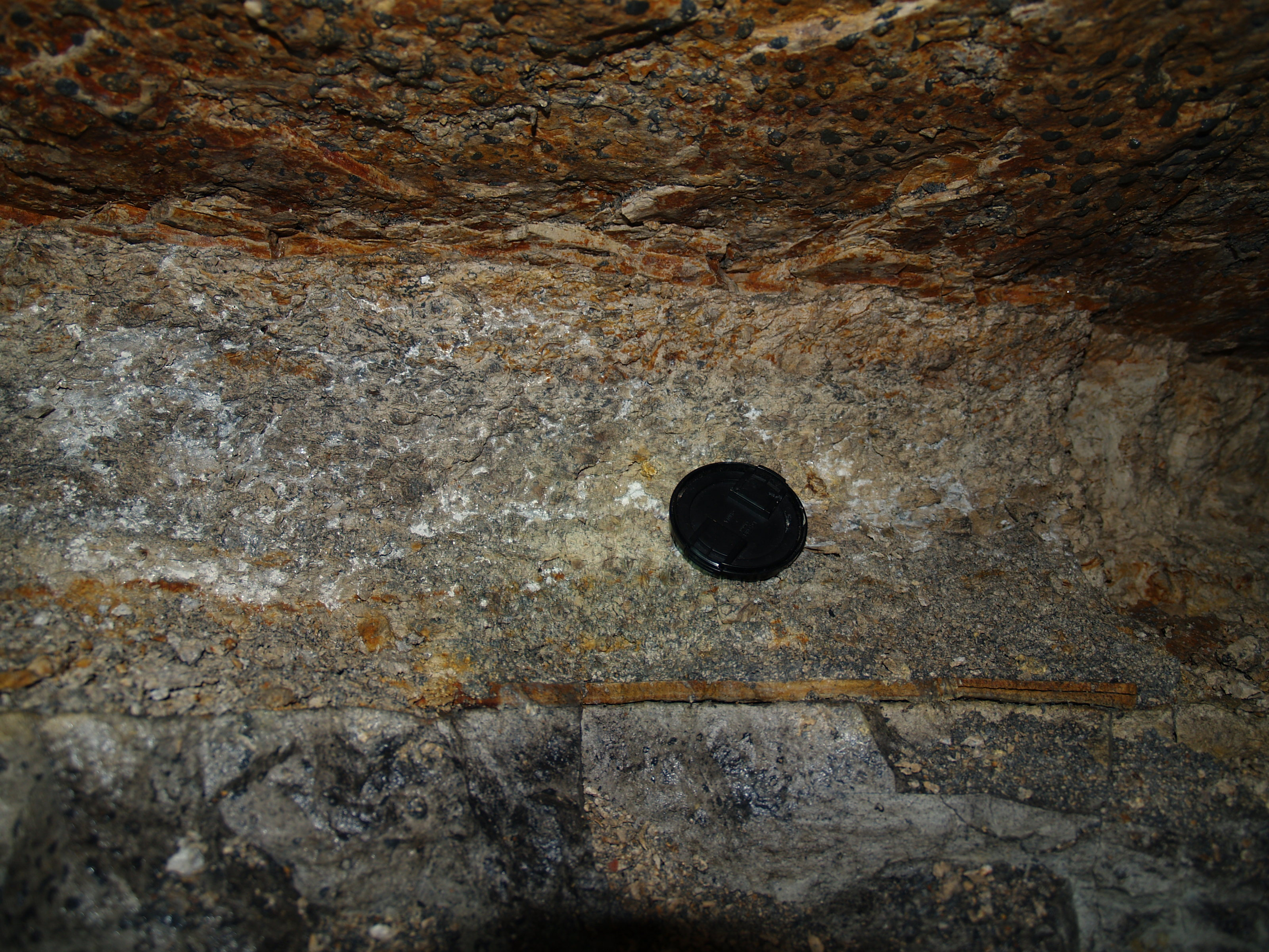 454 million years old volcanic ash between the layes of limestone in the catacombs of Peter the Great's Naval Fortress in Estonia near Laagri. The diameter of objective cover is 58 mm.